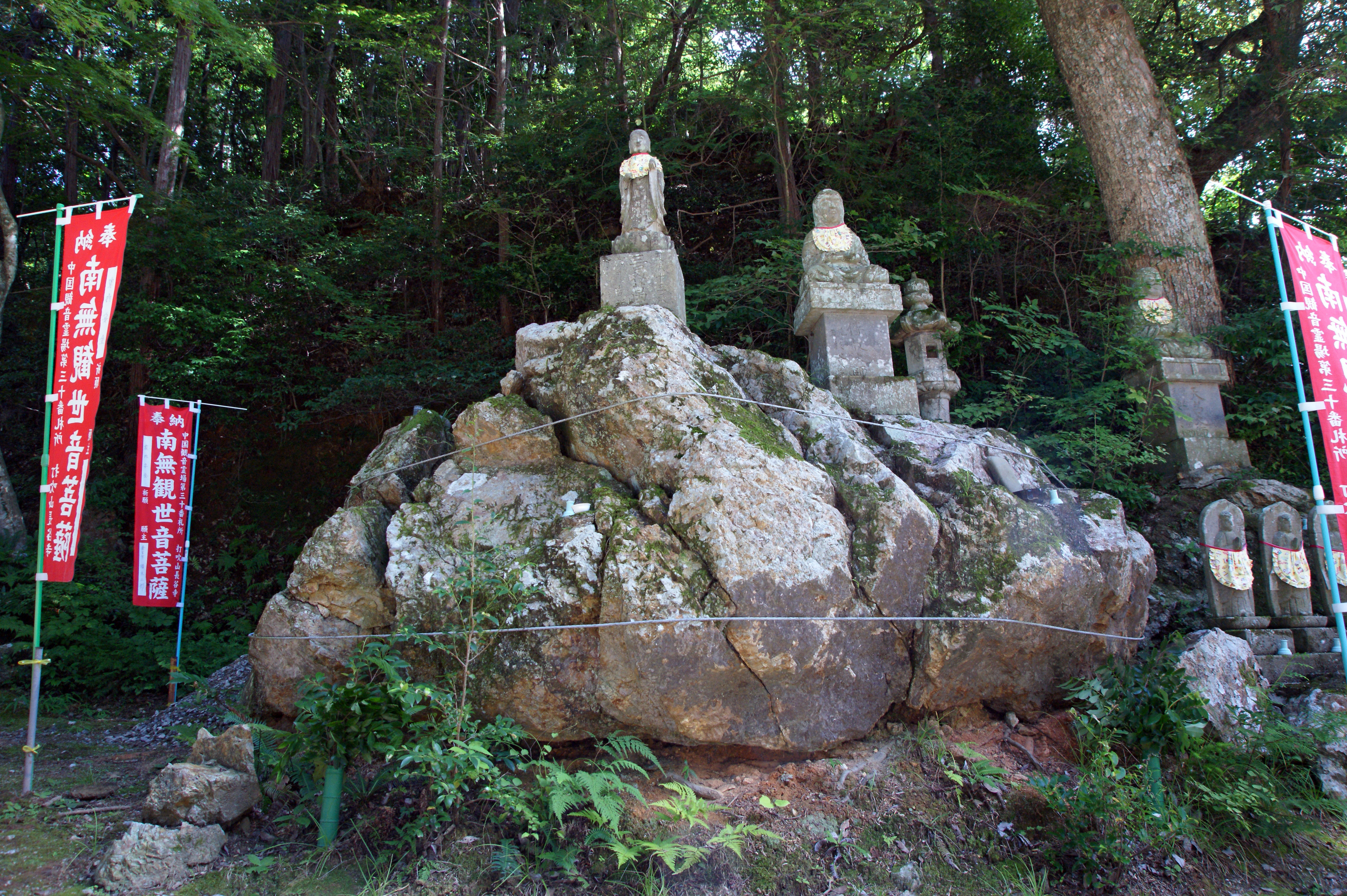 Hasedera in Kurayoshi, Tottori prefecture, Japan